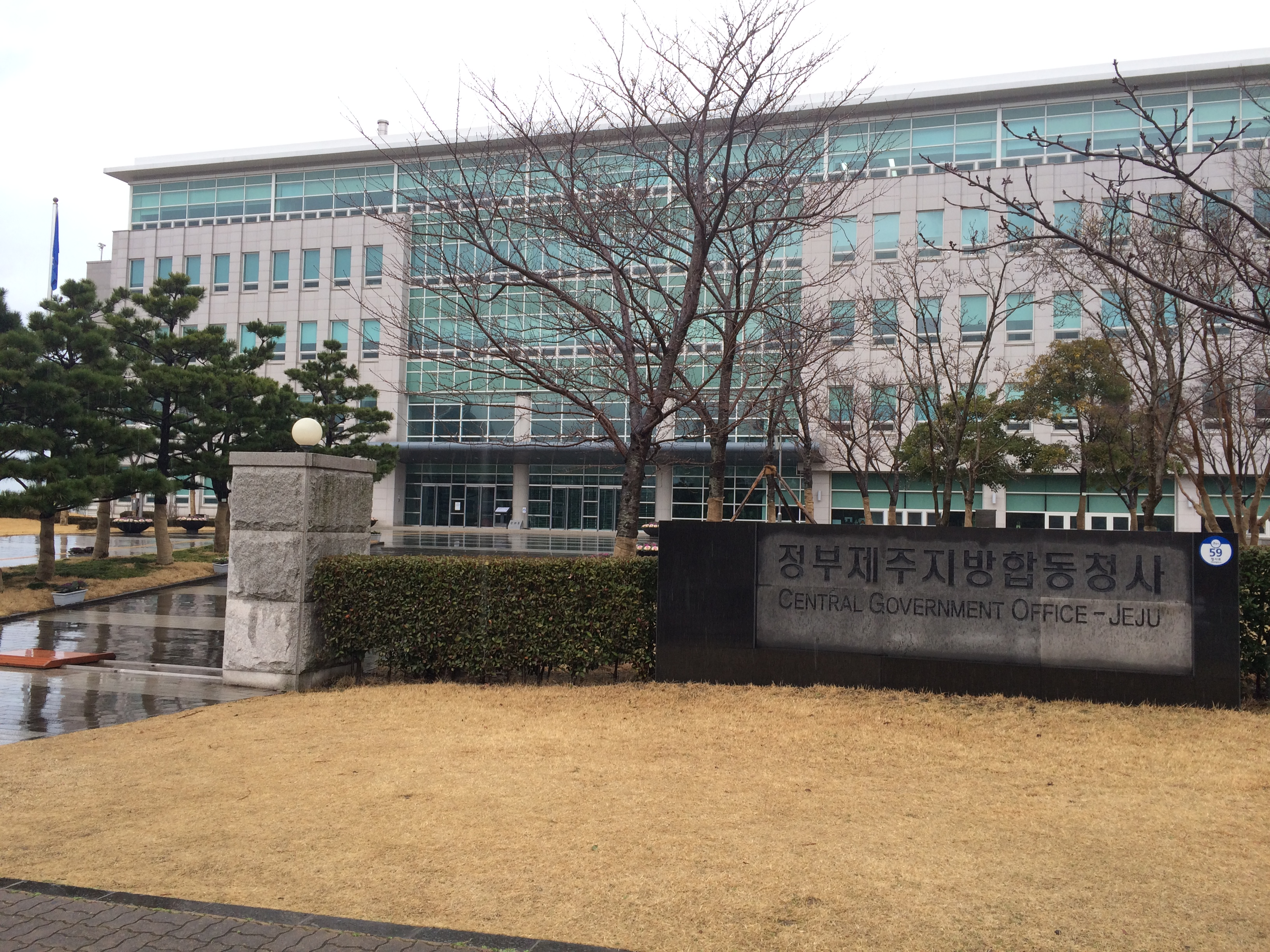 The central government office of Jeju Special Autonomous Province at Republic of Korea(a.k. South Korea)